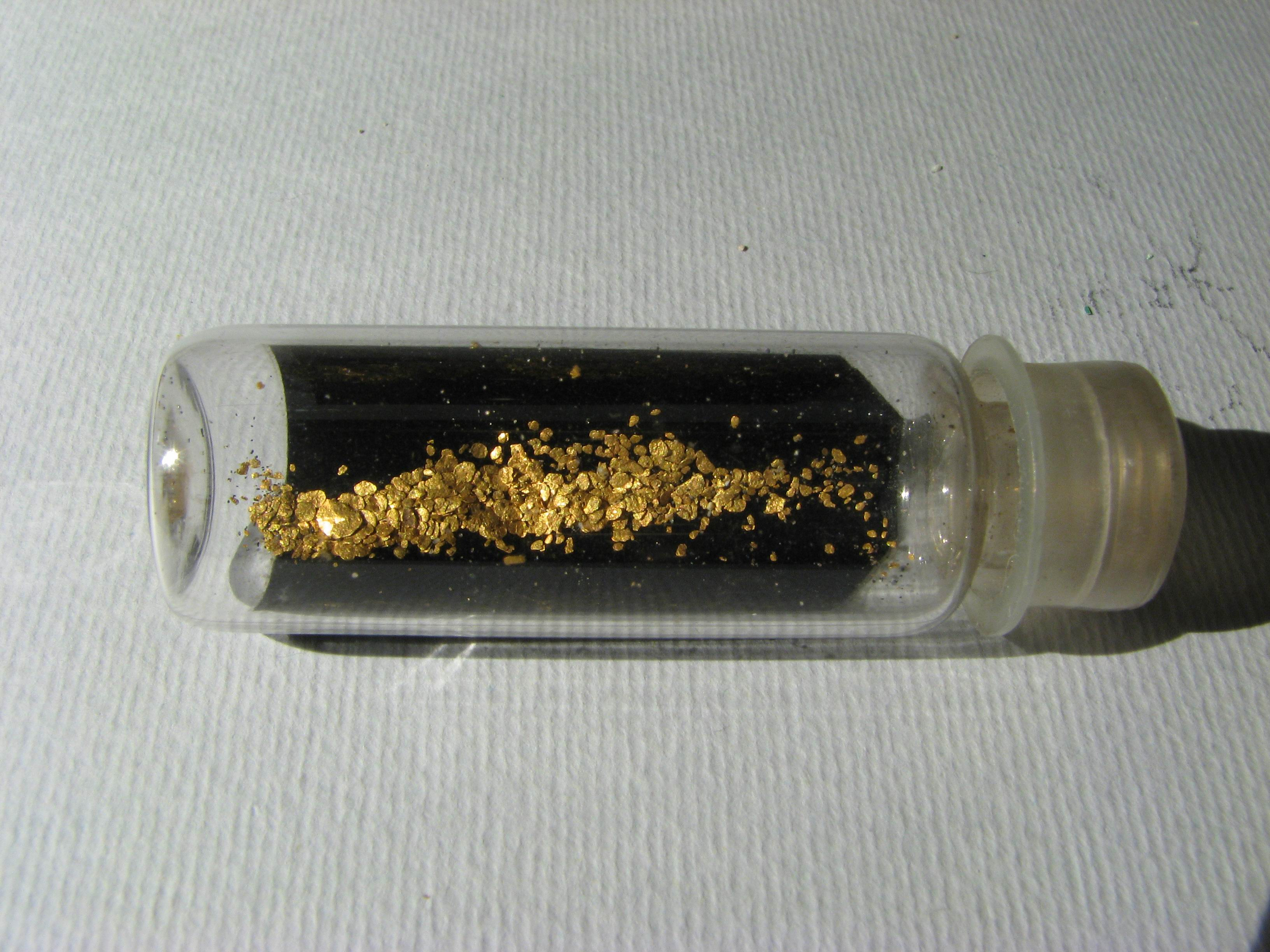 Native gold - Ticino river, Lombardia, Italy